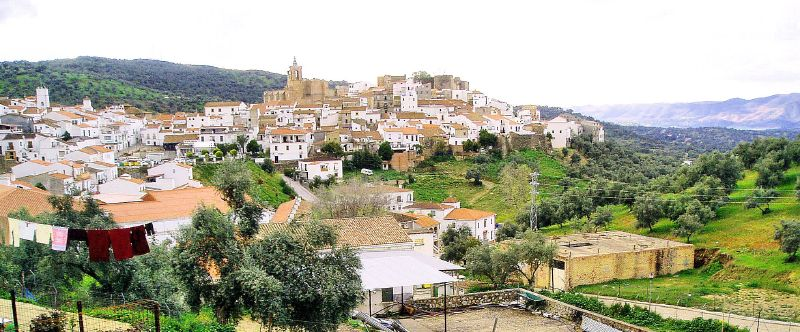 The city of Aroche, Spain.